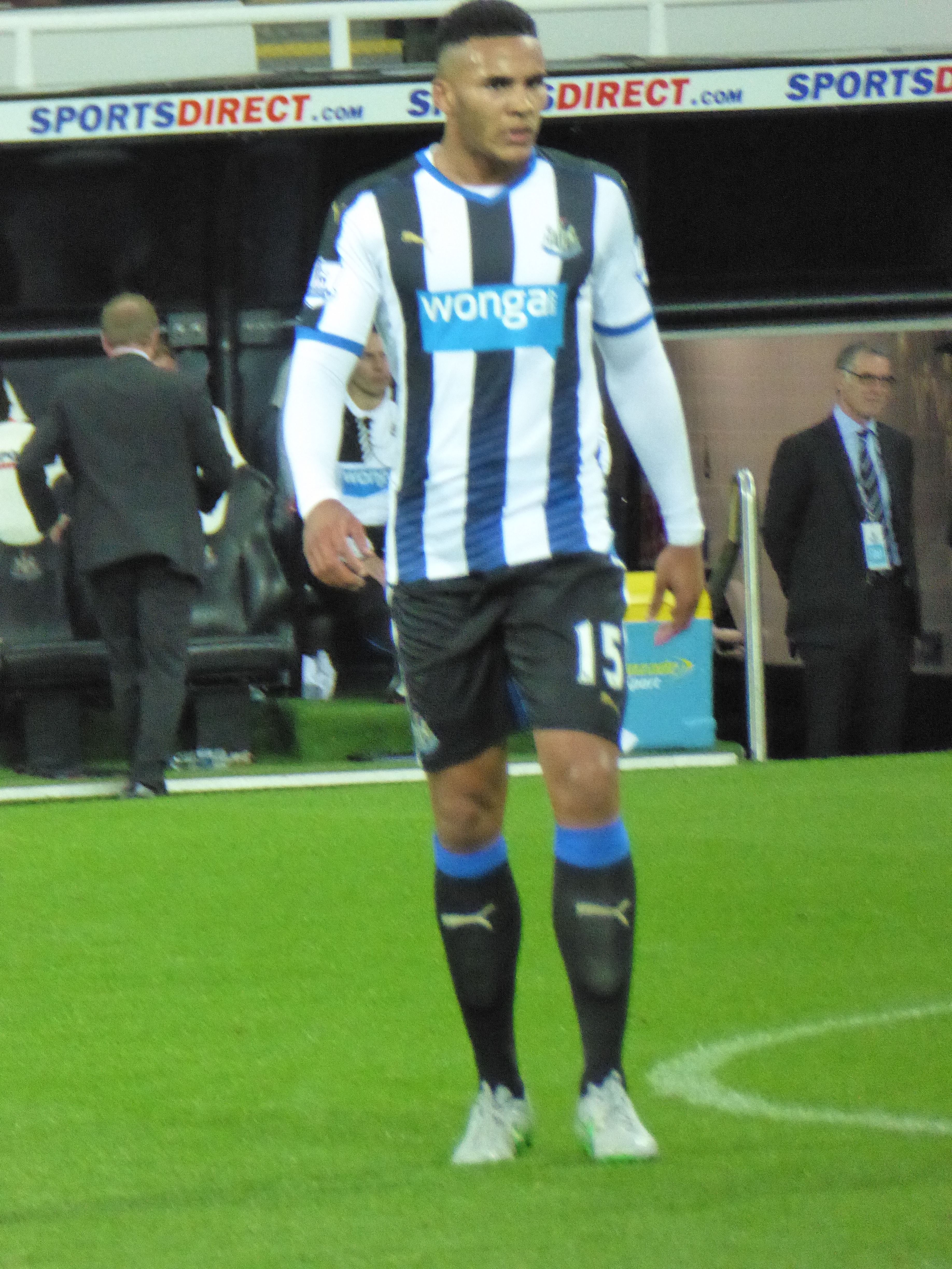 Newcastle United vs Sheffield Wednesday (0-1), Capital One Cup Third Round, St James' Park, Newcastle upon Tyne, Tyne and Wear, England, September 2015